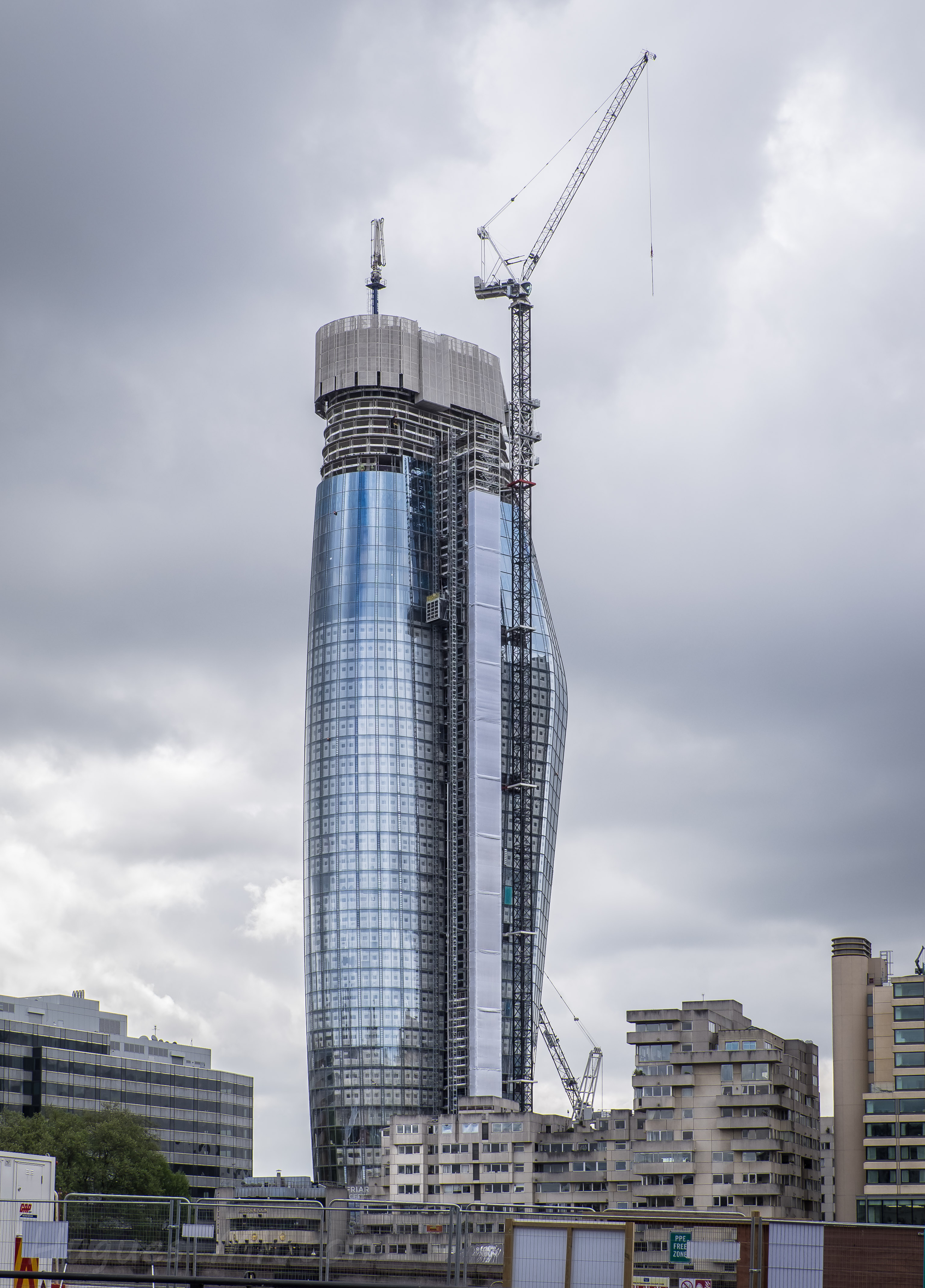 1 Blackfriars under construction as of 26 April 2017 (as seen from the north bank)